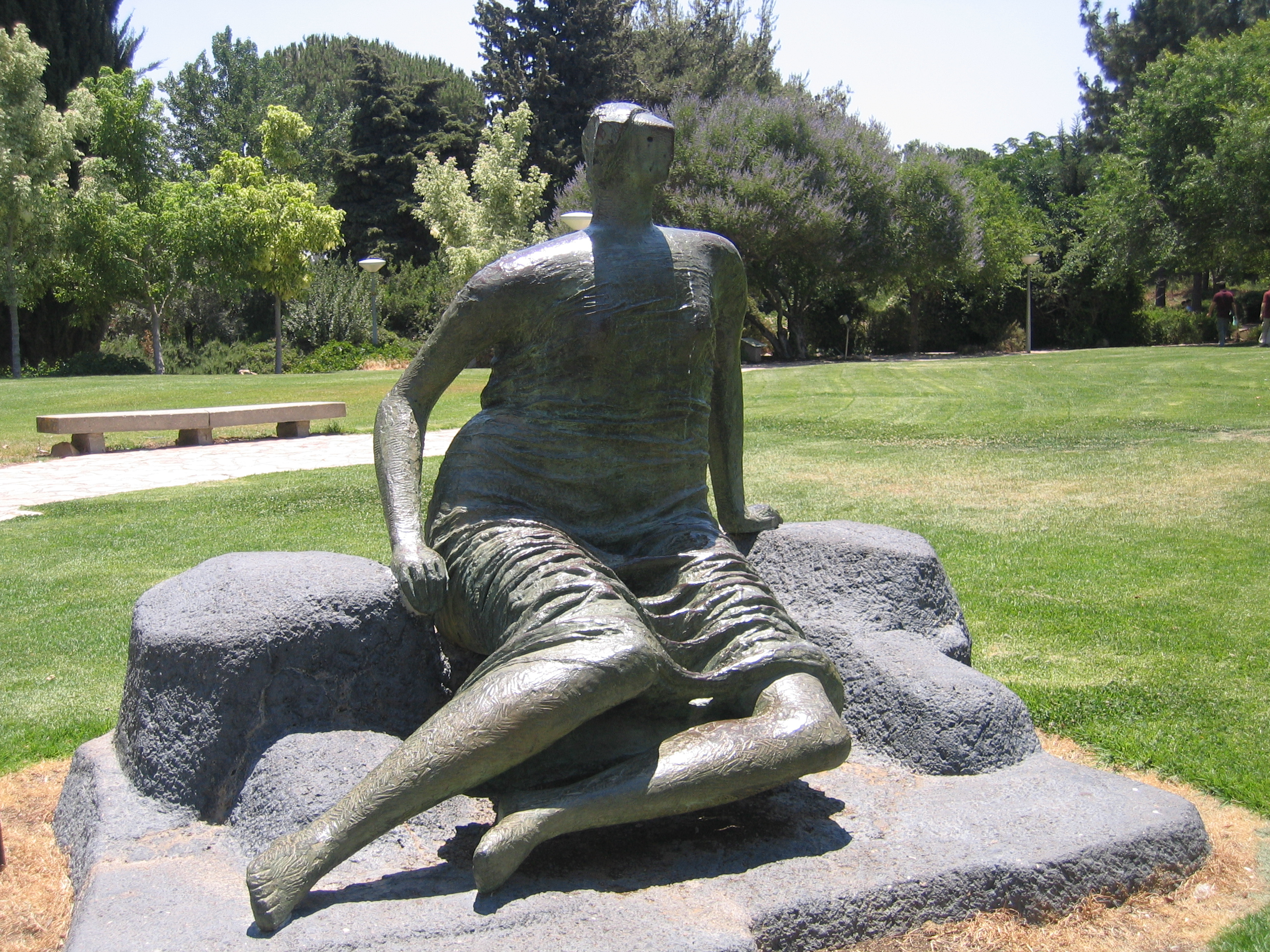 Draped Seated Figure by Henry Moore, Givat-ram, Jerusalem.